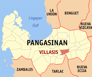 Map of Pangasinan showing the location of Villasis